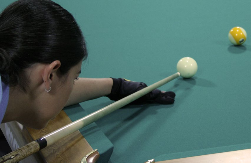 billiard